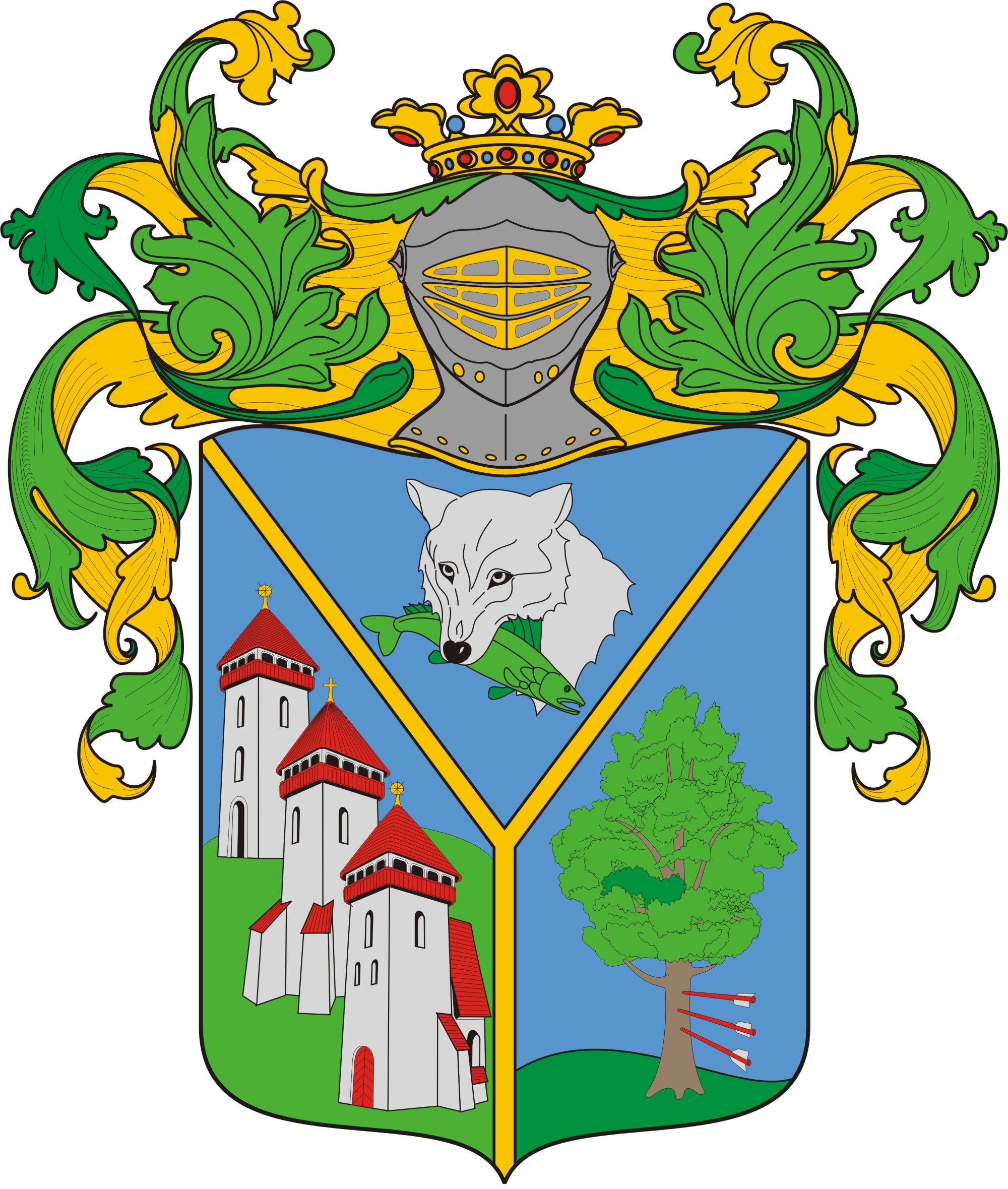 Coat of arms of Egyházasharaszti, Hungary